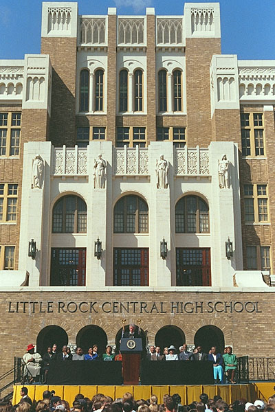 Bill Clinton leading celebrations of the 40th anniversary of the desegregation of Little Rock Central High School in Little Rock, AR, September 25, 1997.